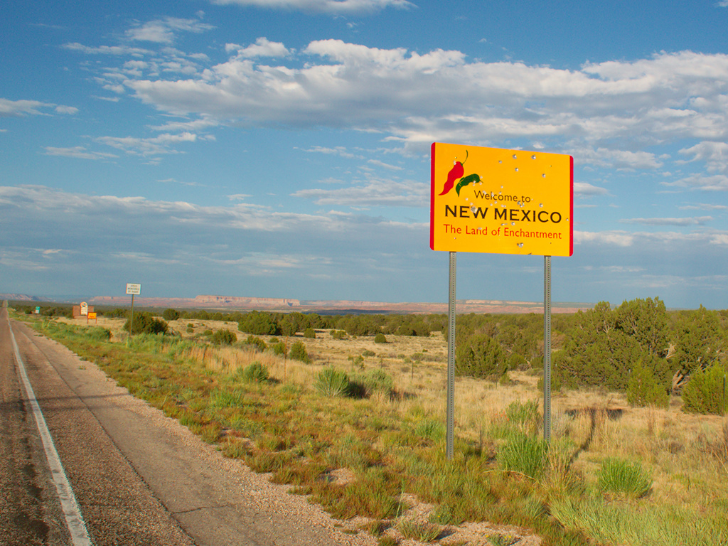 Going East on Rt. 61.